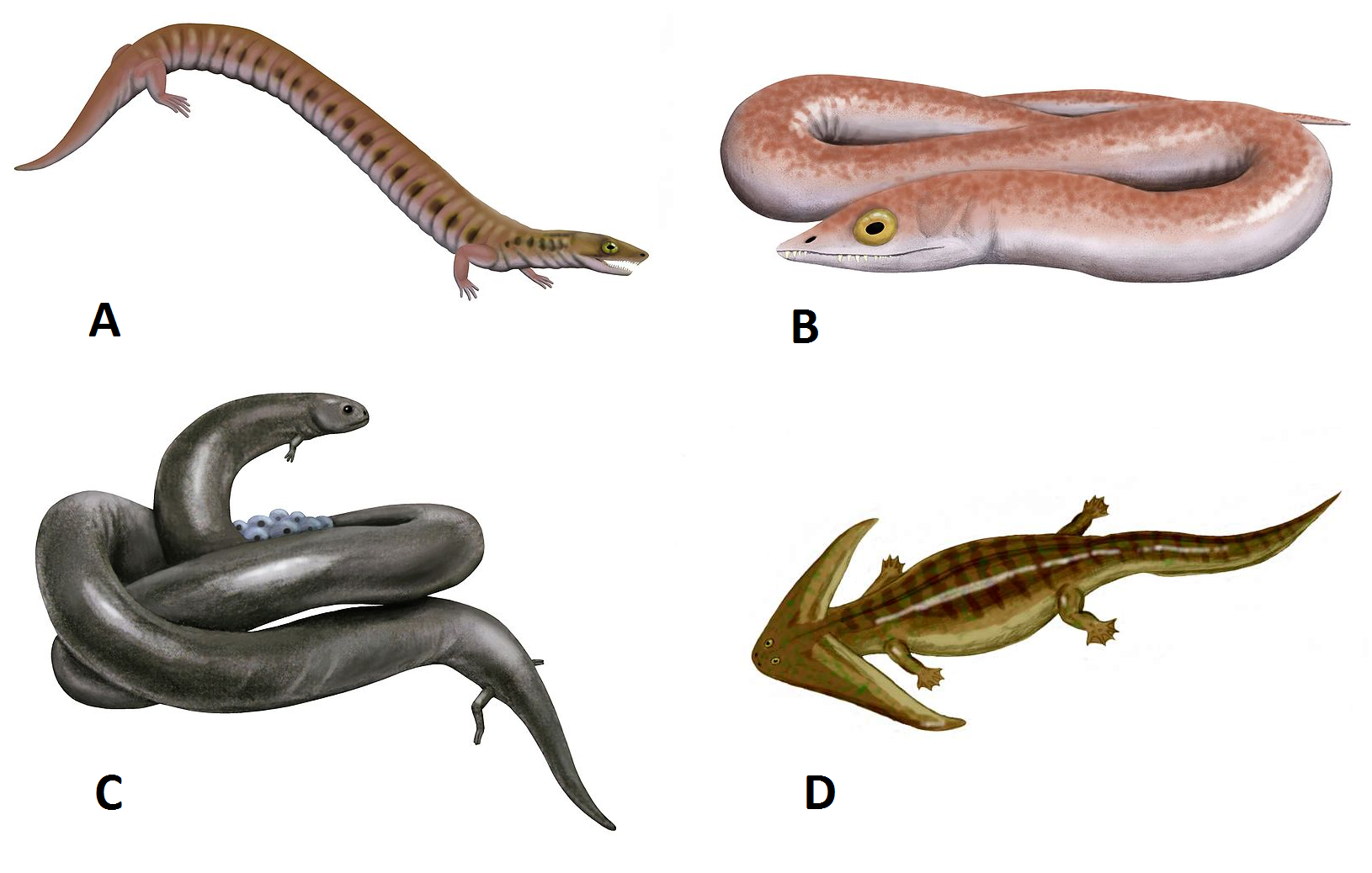 Lepospondyli diversity. (Rhynchonkos (A), Phlegethontia (B), Lysorophus (C) & Diplocaulus (D)) Pictures (A-B-C) Smokeybjb. (D) Nobu Tamura.